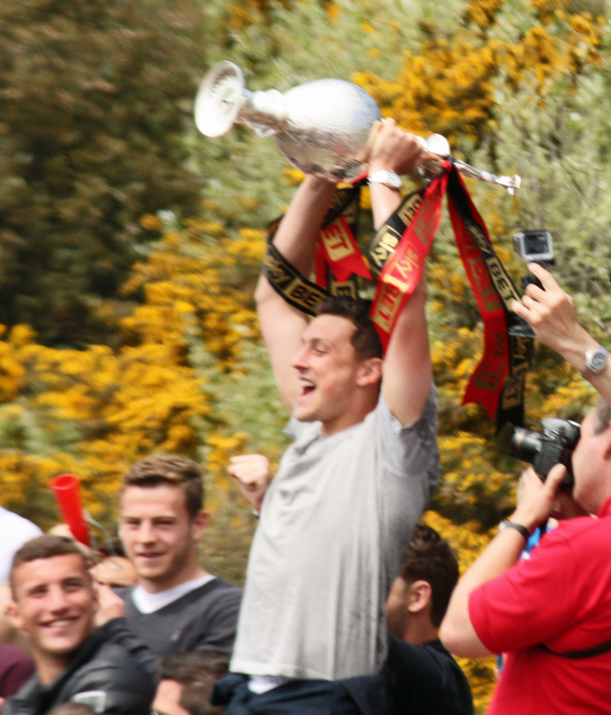 Tommy Elphick celebrating Bournemouth's promotion in 2015.